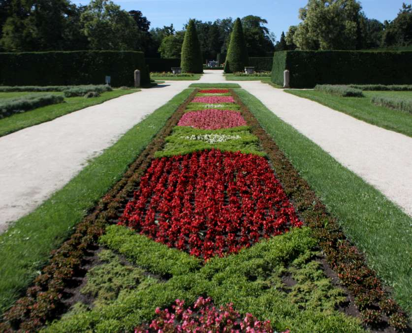 Lednice na Moravě, Czech republic, english park